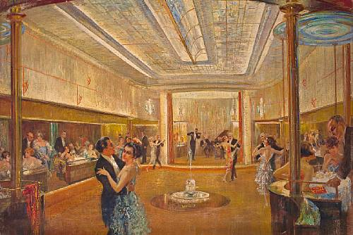 Der Ballraum I. Klasse der Bremen, circa 1928. Öl auf Leinwand, 90.2 x 130.8 cm